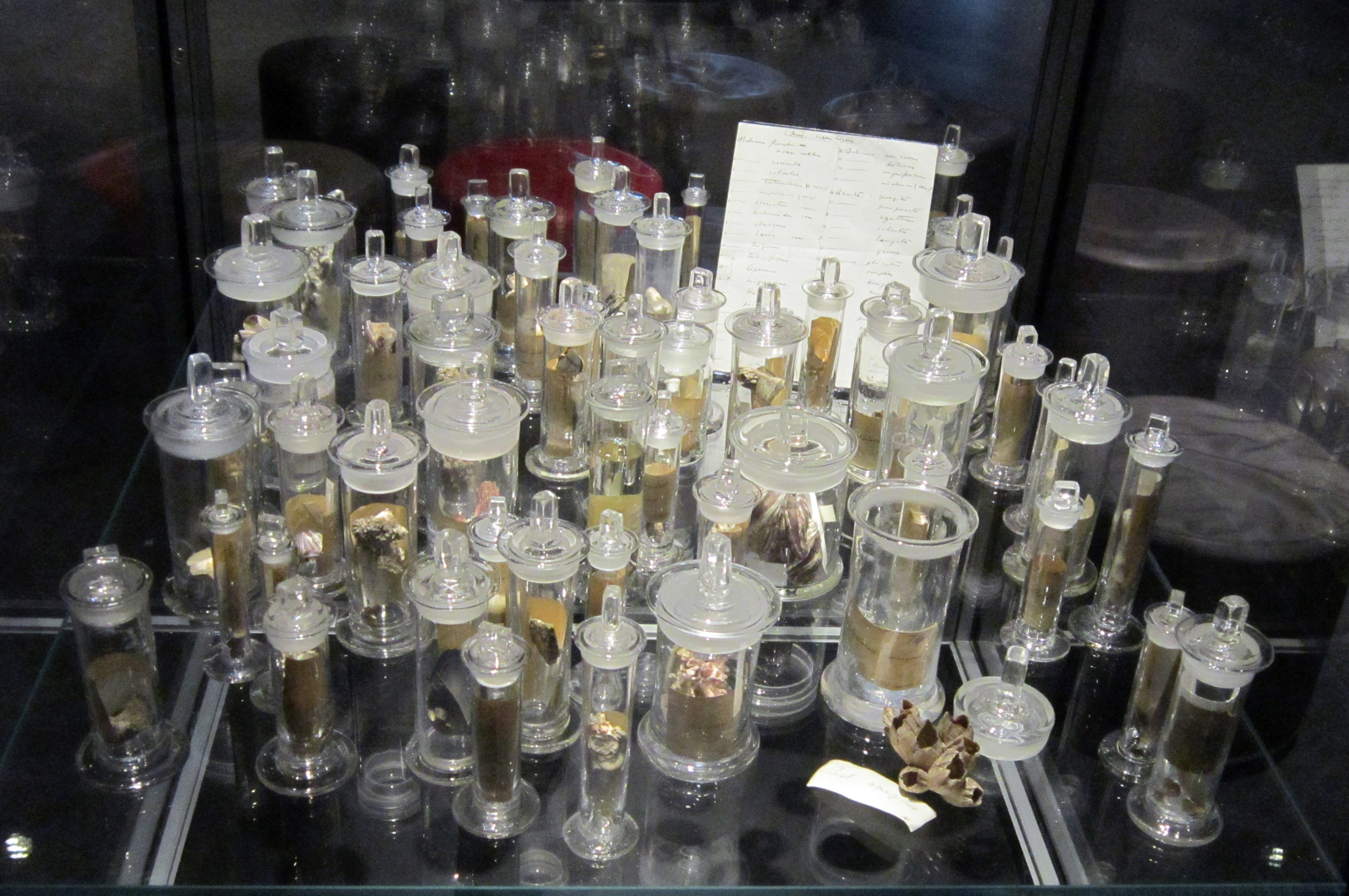 Barnacles from Charles Darwin's collection, sent as a gift to Japetus Steenstrup and Johan Georg Forchhammer in 1854, to thank them for borrowing him many specimens during his studies. Darwin's handwritten list of specimens can be seen at the right. Zoological Museum of Copenhagen.